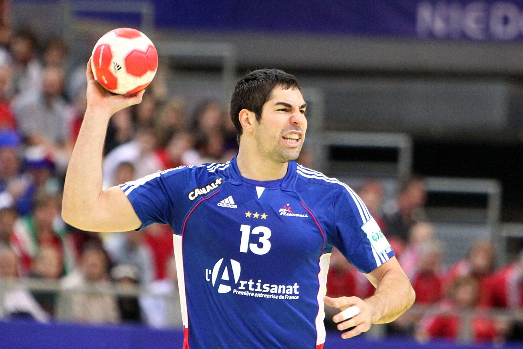 Nikola Karabatić (Montpellier HB), France national handball team